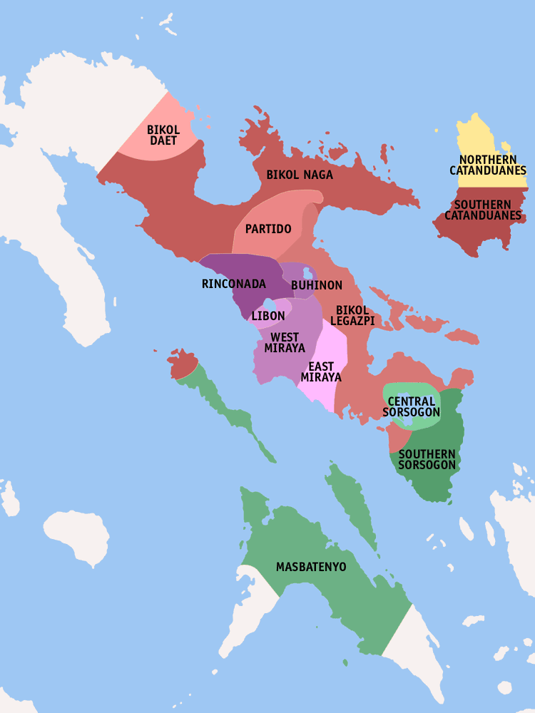 Map of Bikol languages. Made by TheCoffee. Released under the GFDL. 750×1,000 (45 KB). TheCoffee